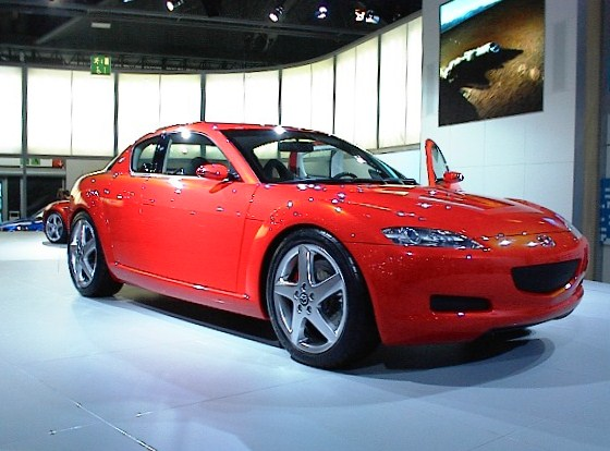 Mazda RX-8 concept